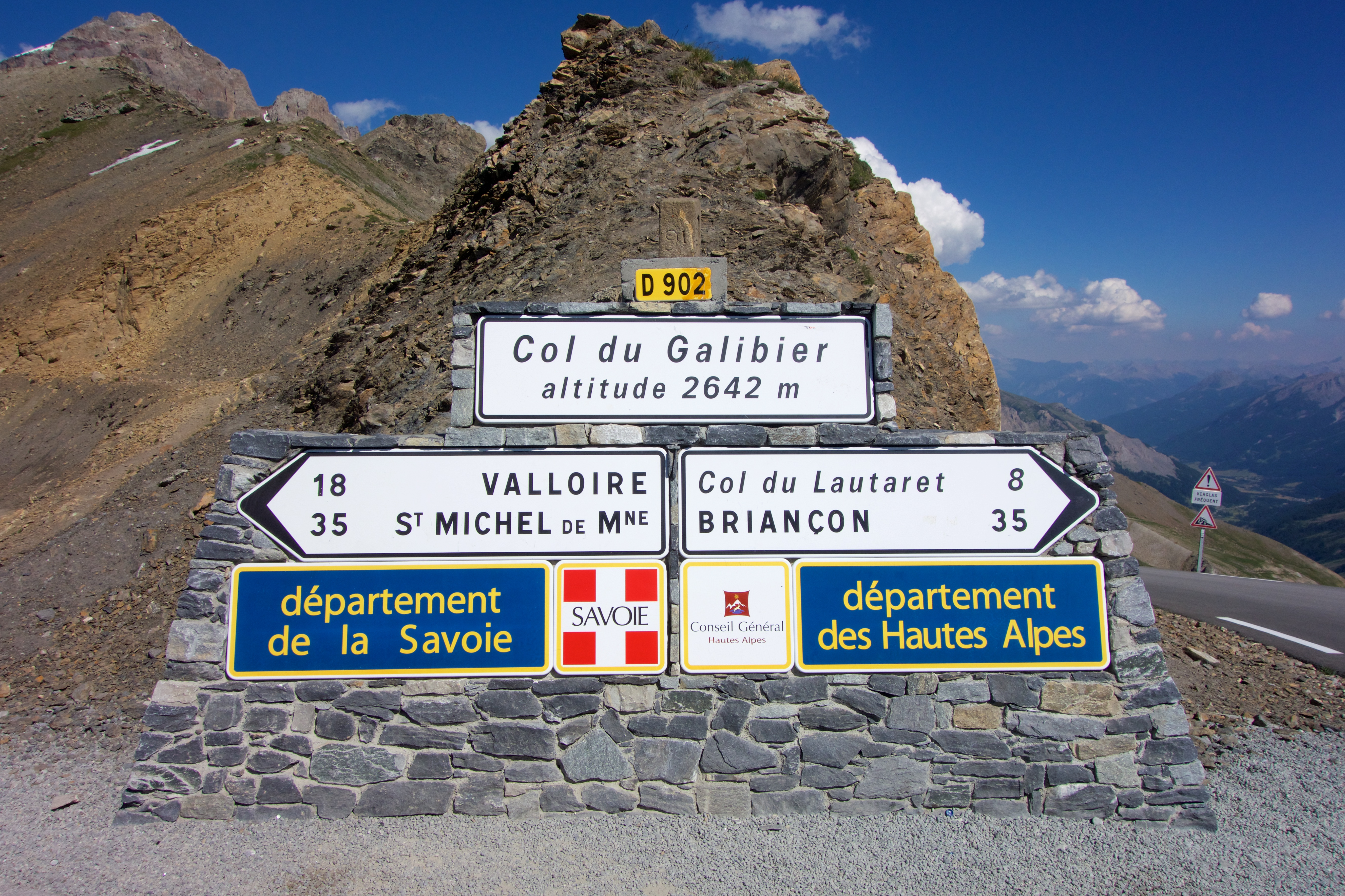 Signpost at the Col du Galibier.